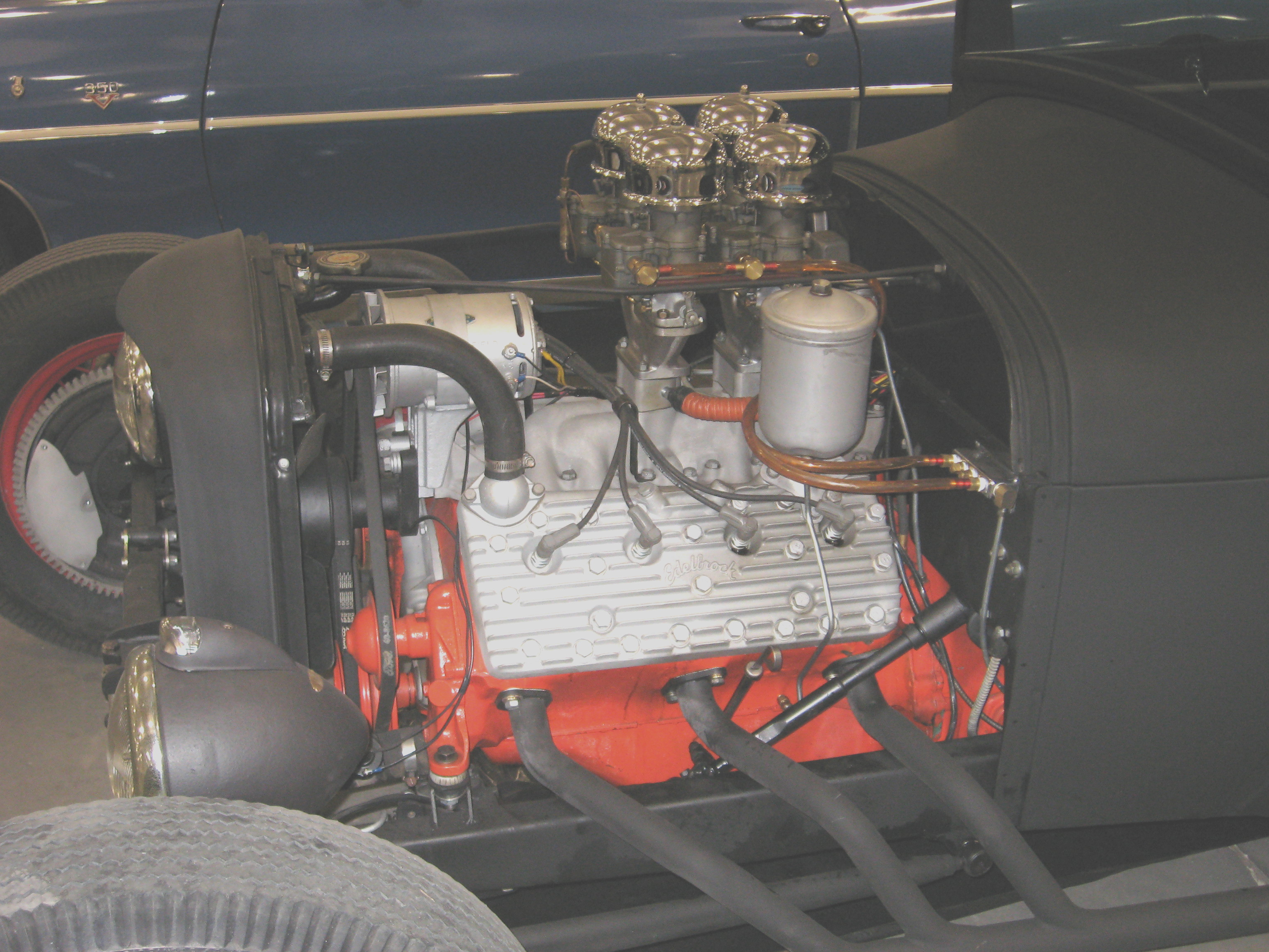 Ford flathead engine with chrome carb hats from local gun/car show